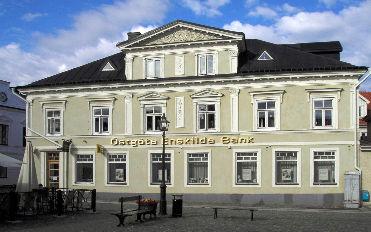 Local branch office of ÖEB bank in Vadstena, Östergötland, Sweden